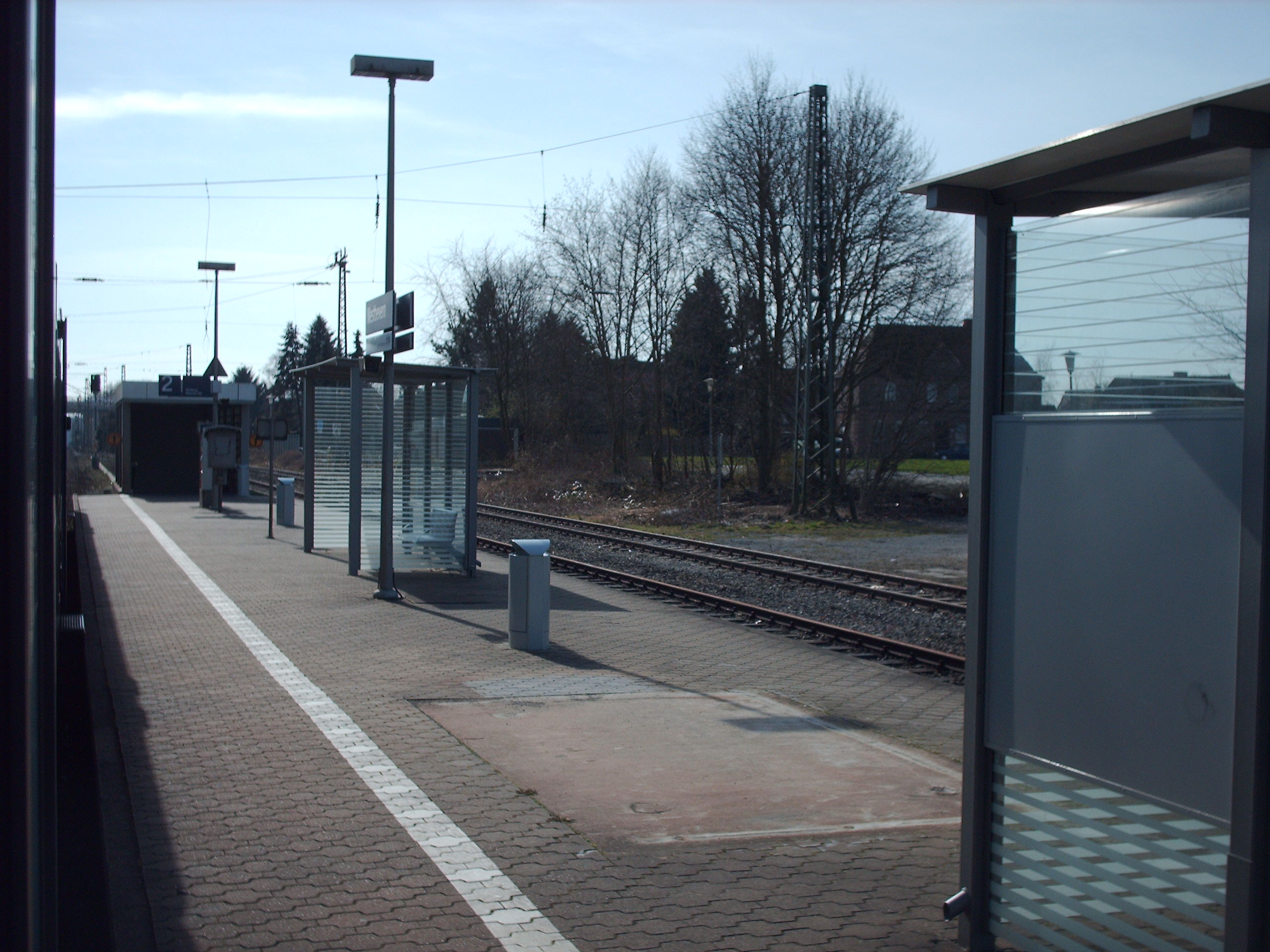 Westbevern station, Telgte, Germany check usage